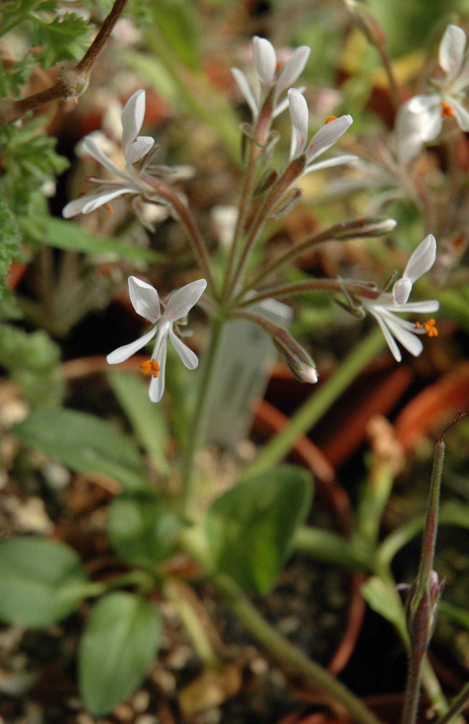 Inflorescence of Pelargonium campestre